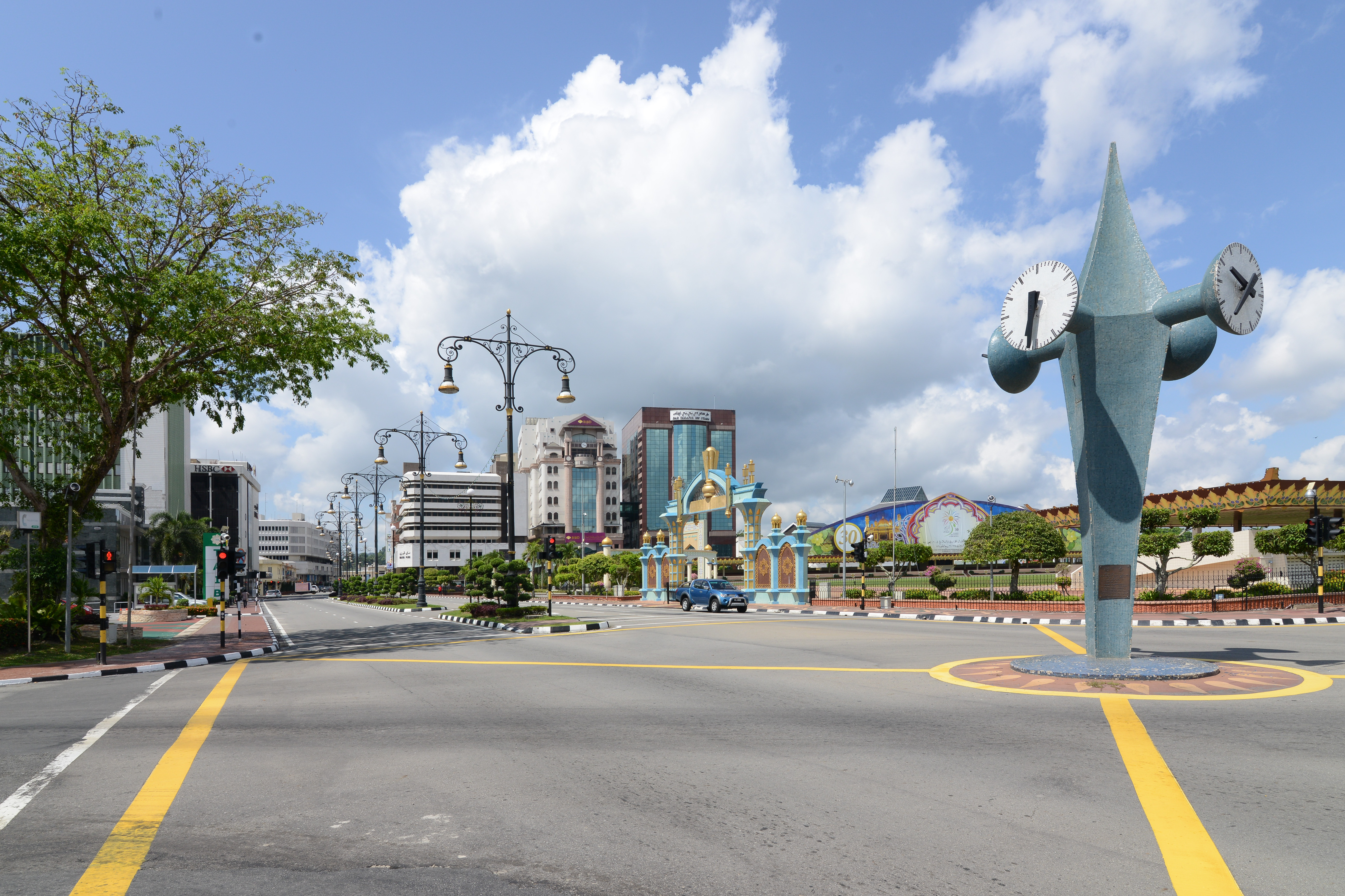 Bandar Seri Begawan is the capital and largest city of the Sultanate of Brunei. Bandar Seri Begawan has an estimated population of 20,000, and including the whole Brunei-Muara District, the metro area has an estimated population of 279,924.